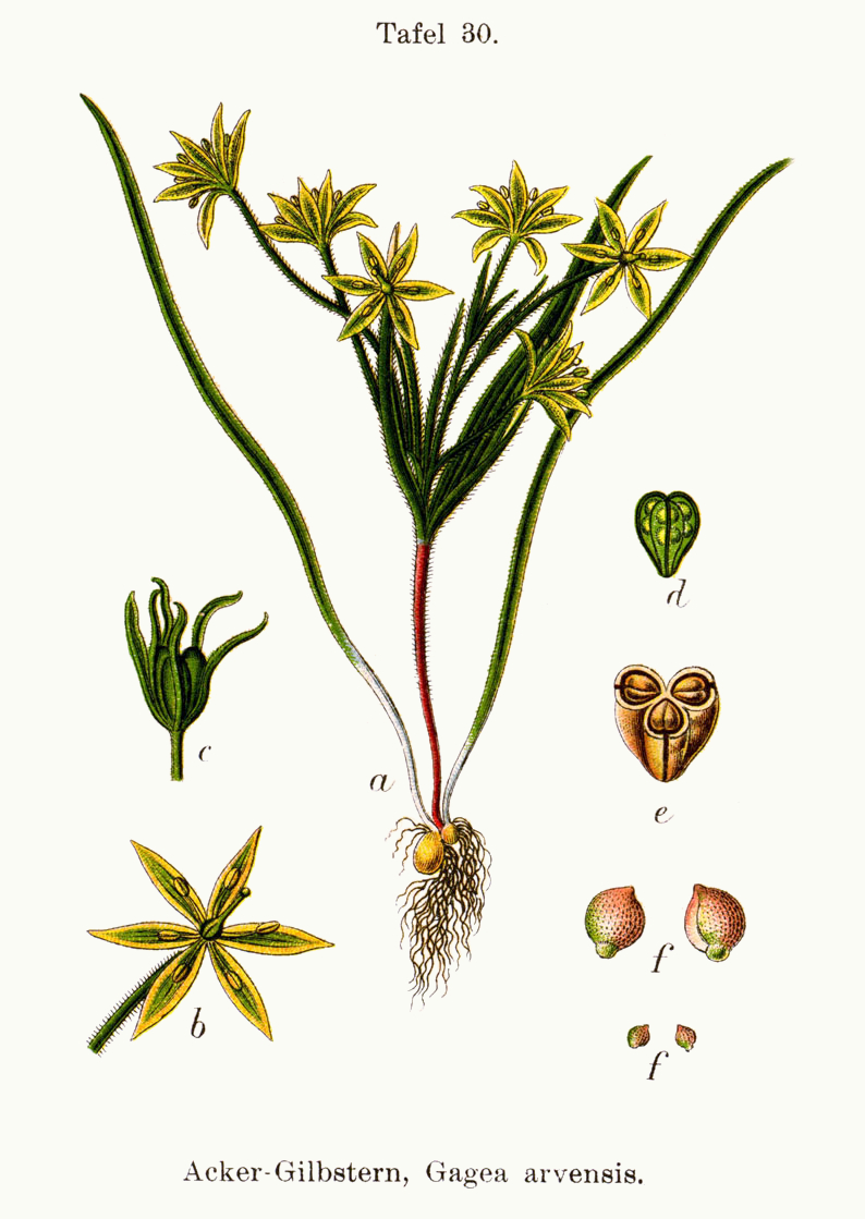 Gagea villosa (M. Bieb.) Sweet, syn. Gagea arvensis Dumort. Original Caption Acker-Gilbstern, Gagea arvensis